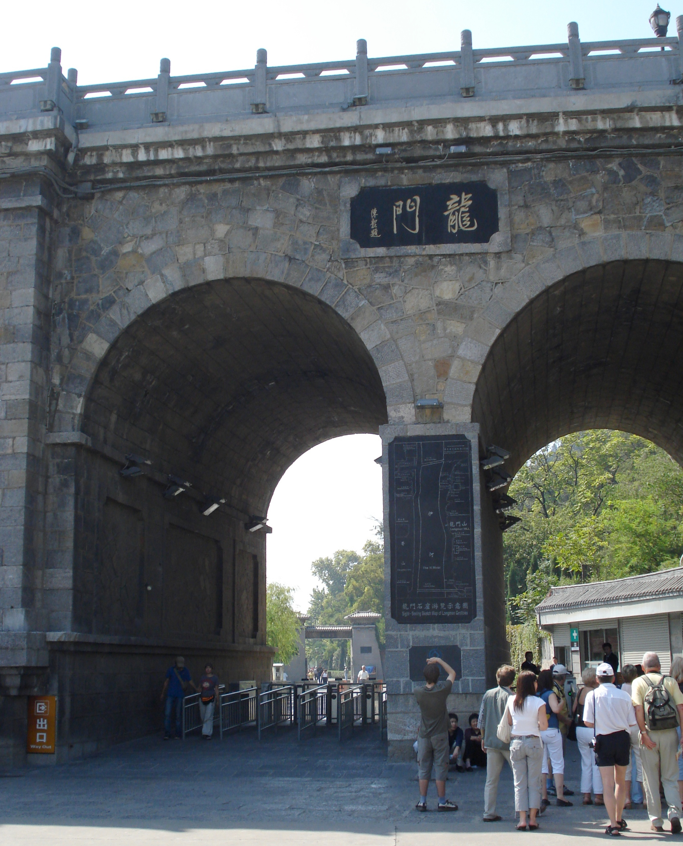 Luoyang, China - entrance to Longmen Grottoes (Longmen Shiku) under Manshui Bridge over Yi River ( Yi He)